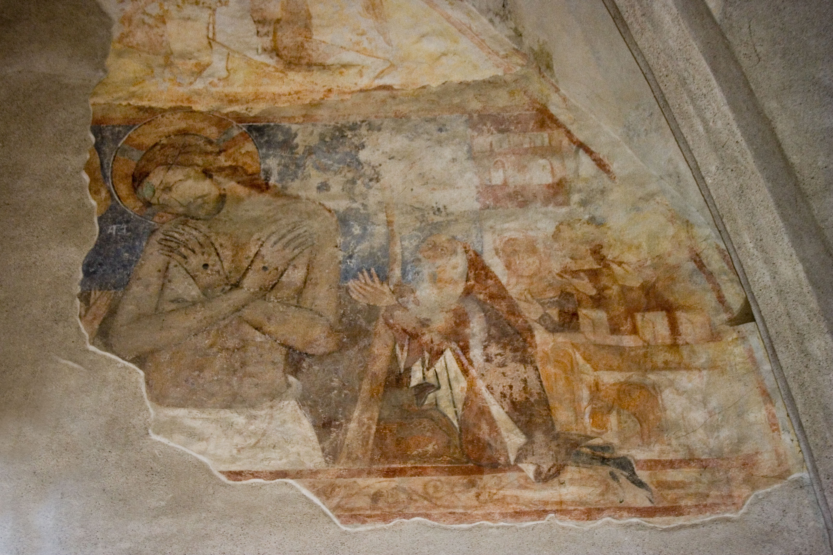 Hungary, County Zemplen, Vizsoly Reformed Romanesque church - Christ off the cross - XIV century wall mural